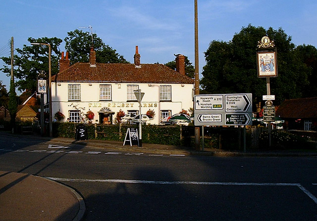 Coolham Cross Roads on the A272. The Selsey Arms is prominent at these cross roads